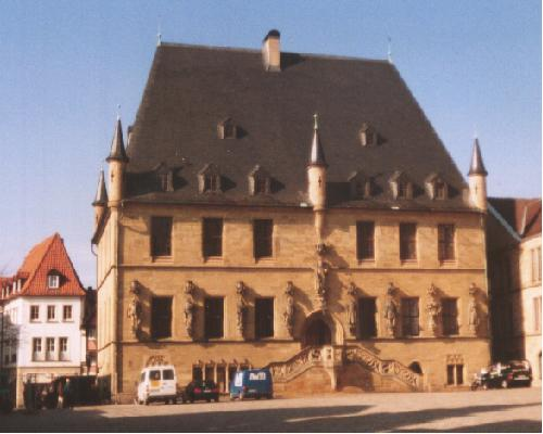 Town hall in Osnabruck